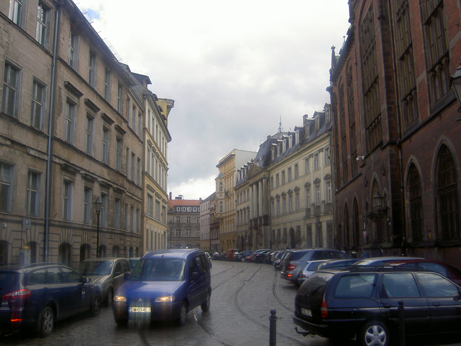 Szajnochy Street in Wrocław